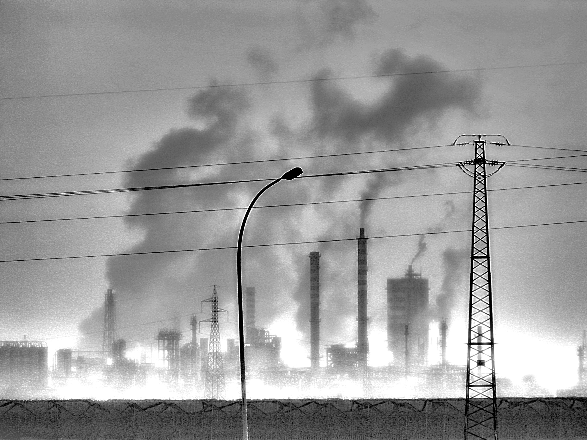 Air pollution